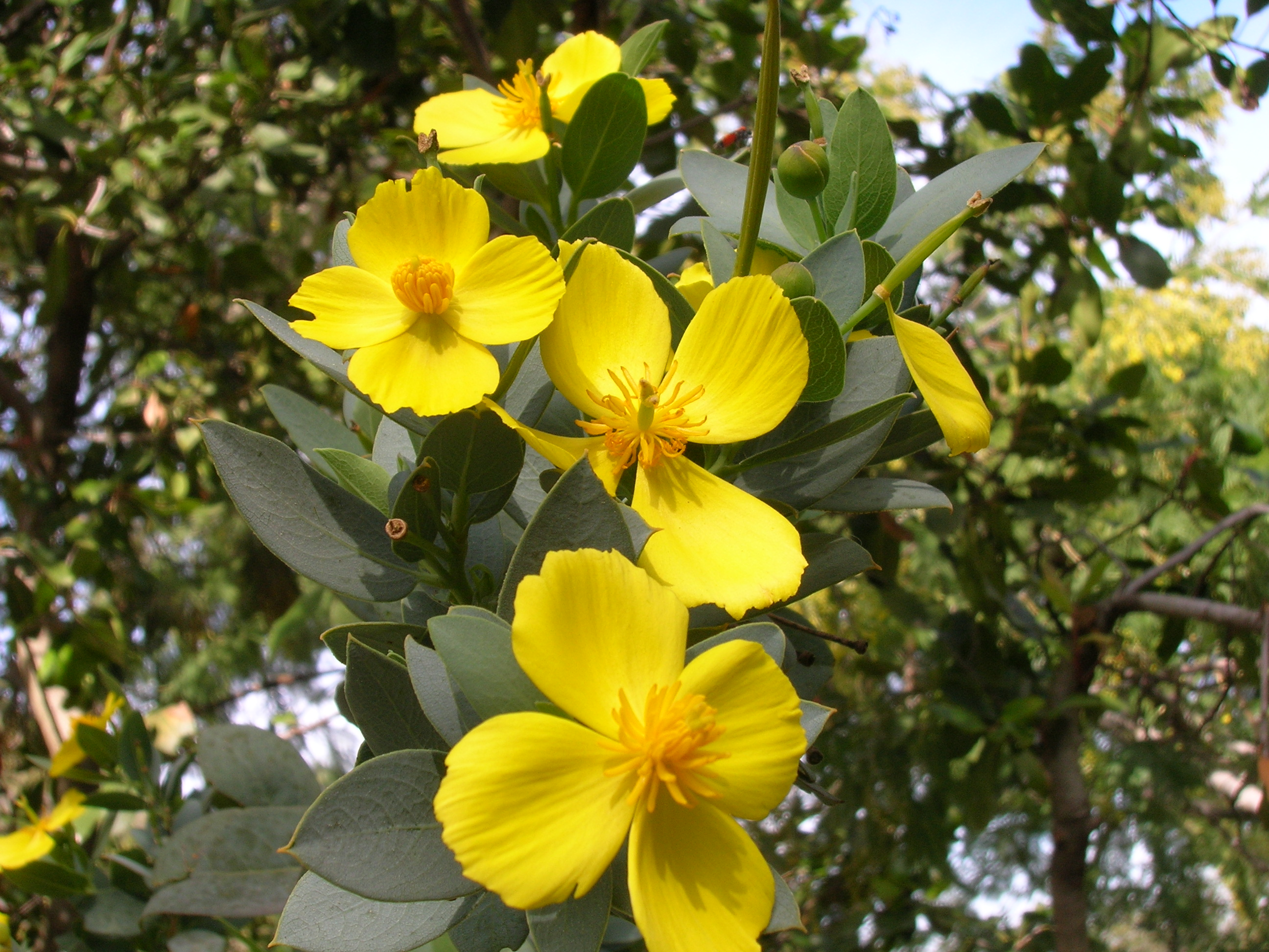 Dendromecon harfordii (Channel Island Tree Poppy; Papaveraceae), flower close-up; cultivated in the Wrigley Memorial and Botanic Garden, near Avalon on Catalina Island.